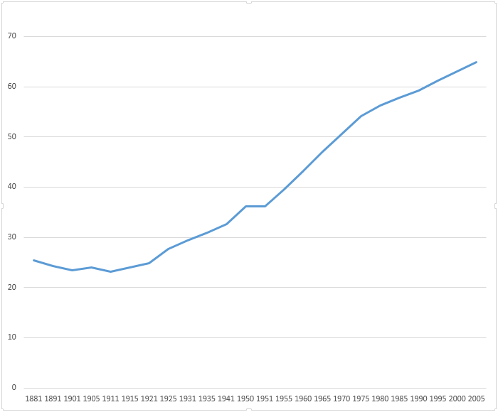 Evolution of life expectancy in India for period between 1881 and 2005.[1]